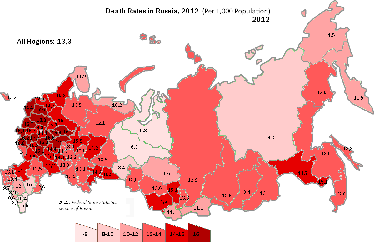 Death rate by region in 2012.Demographic maps